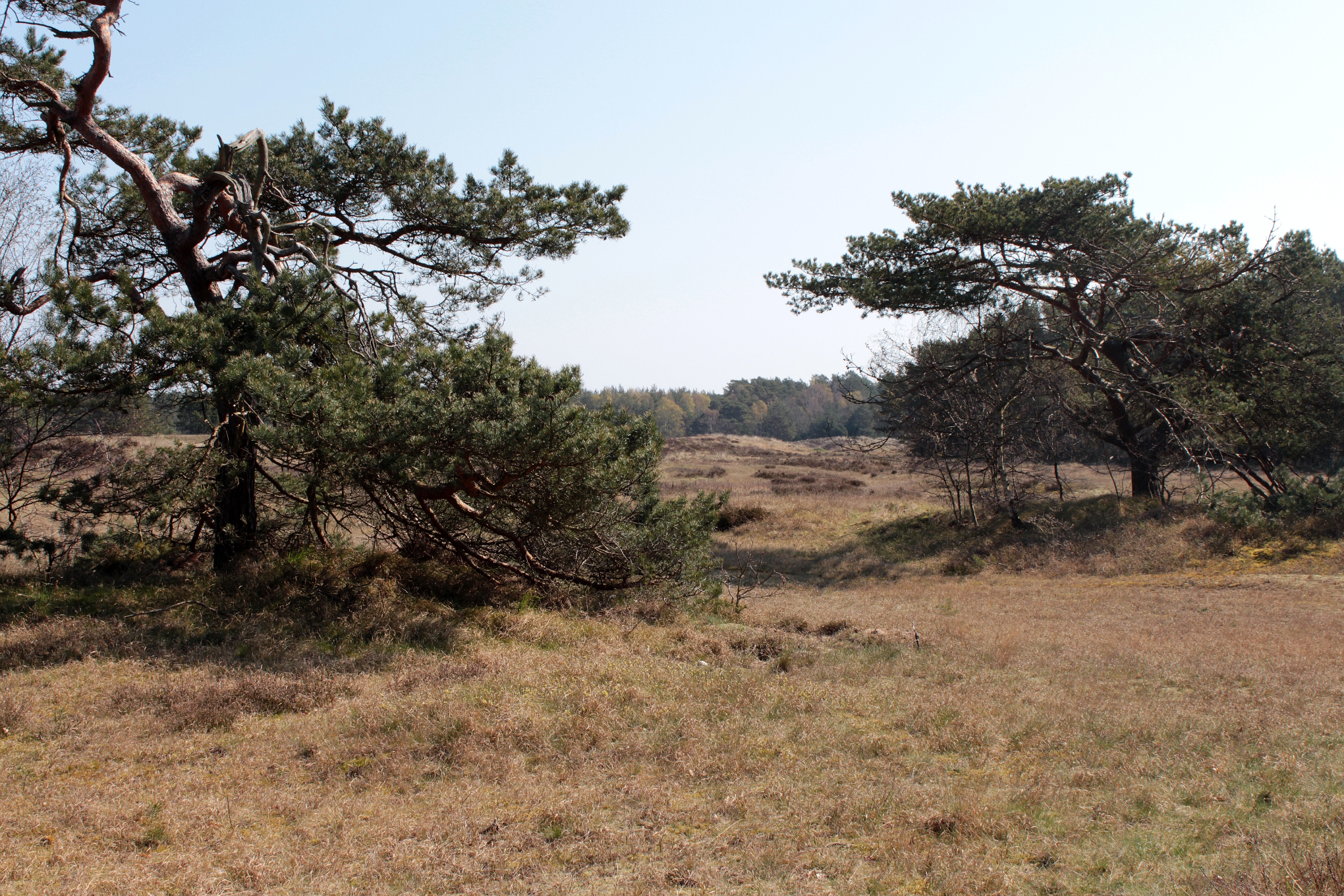 Melby Overdrev (= Melby Common) in Halsnæs Kommune, Denmark. Here, on a sandy soil, the vegetation is slowly returning to a forest type, dominated by Pinus silvestris, Betula pendula and Quercus robur.